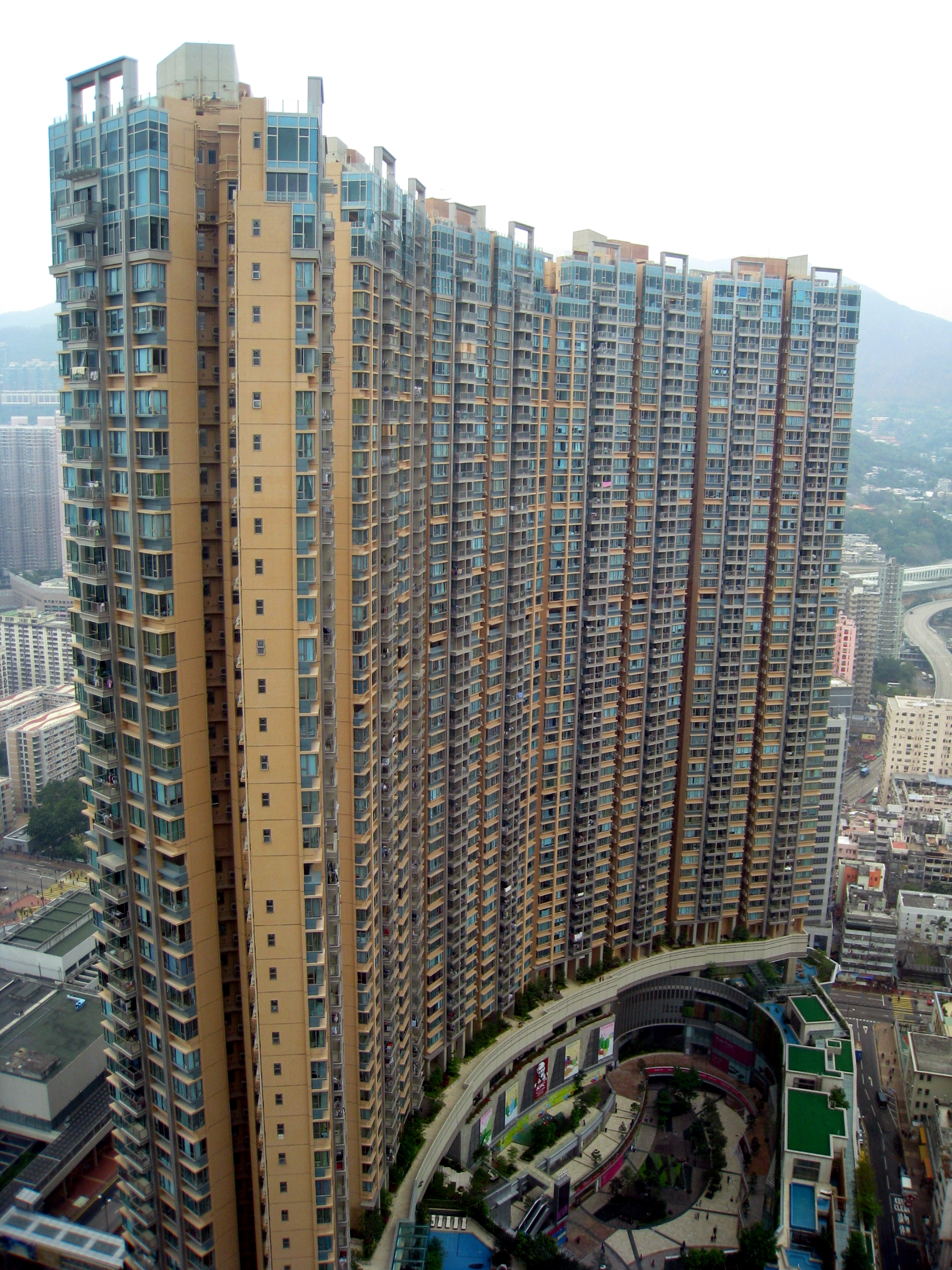 HK Vision City Phase 1 view from Nina Tower